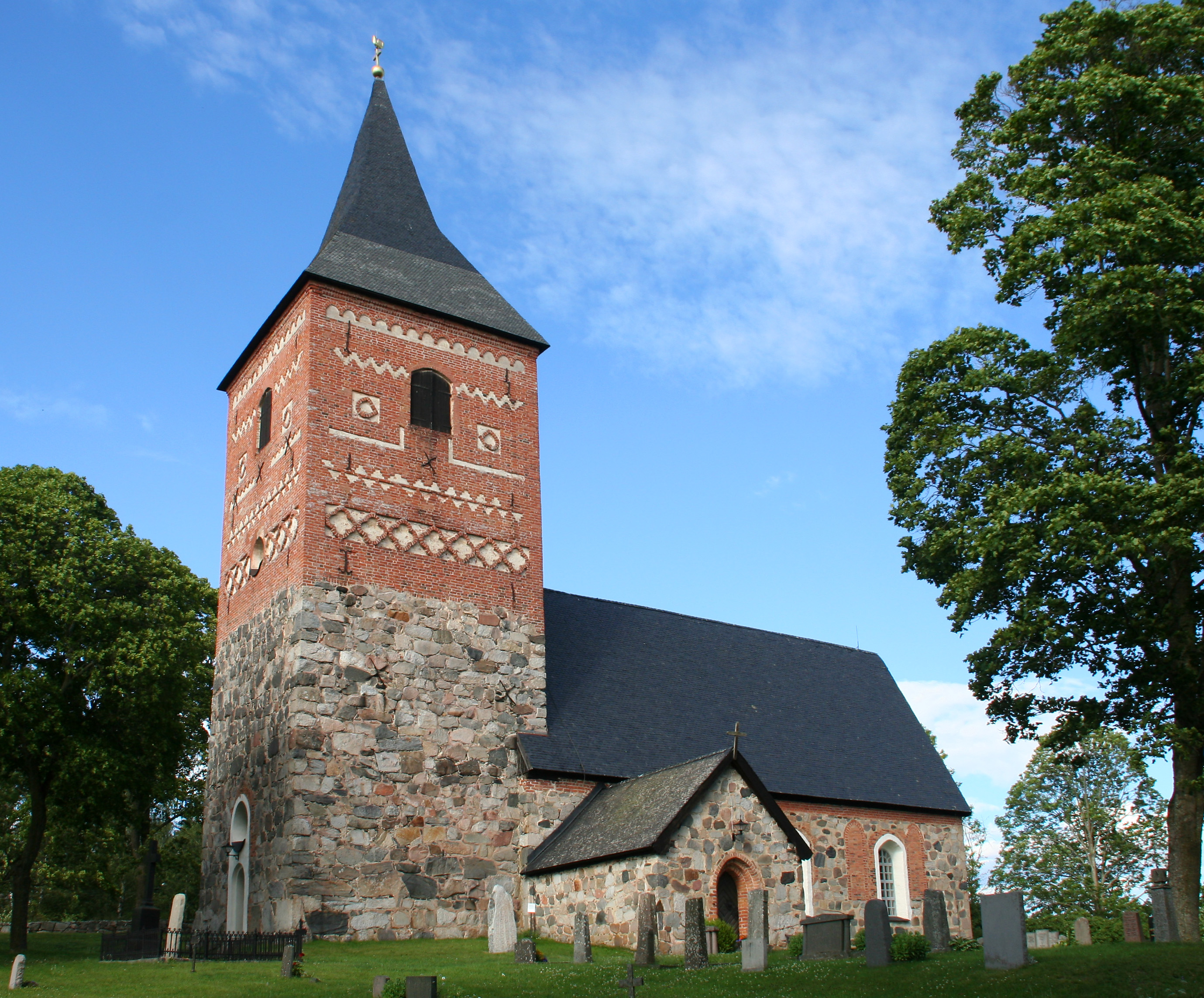 Skepptuna Church, Uppland.